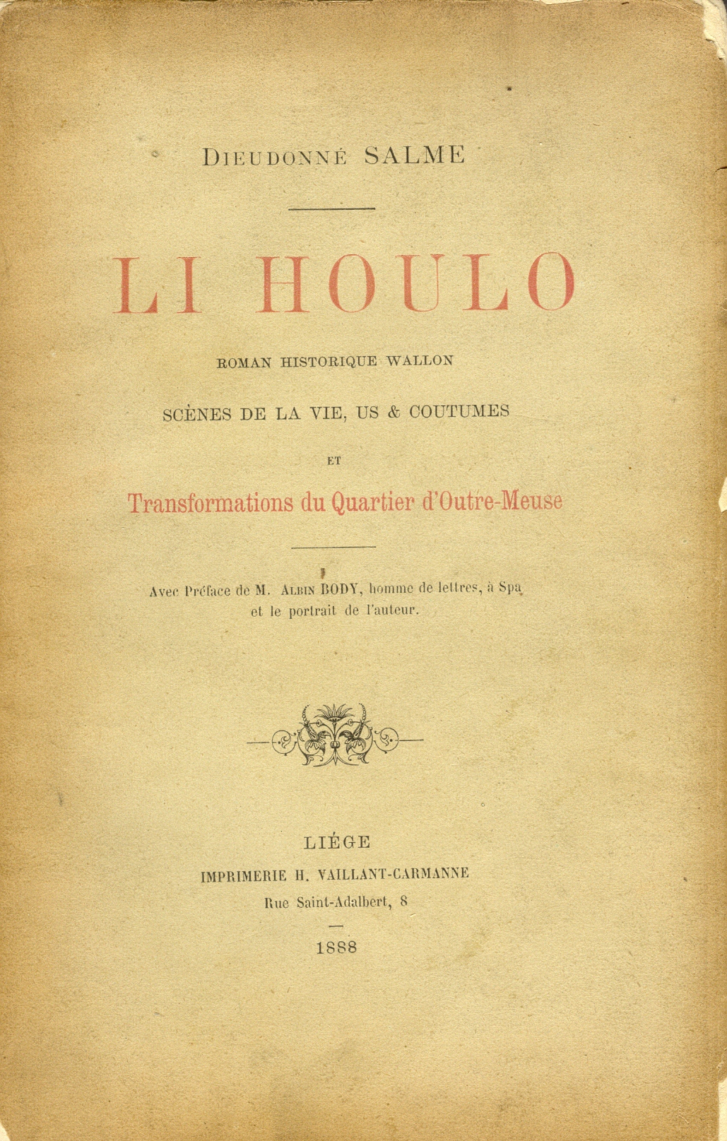 Front cover of "Li Houlo", the first novel ever written in walloon, published in 1888. Walon: coviete do Li houlot, prumî roman e walon